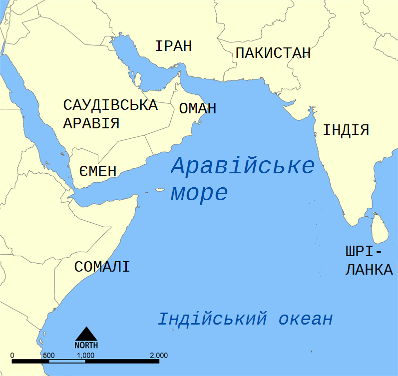 A map showing the location of the Arabian Sea in the Indian Ocean. Created by NormanEinstein, Jully 19, 2005.